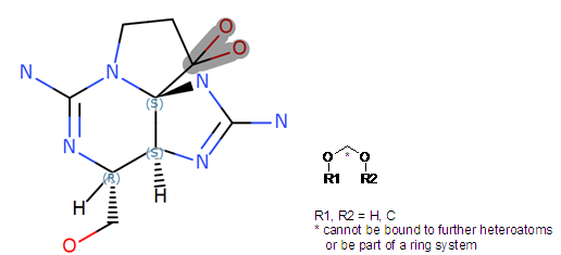 Molecule by DEREK